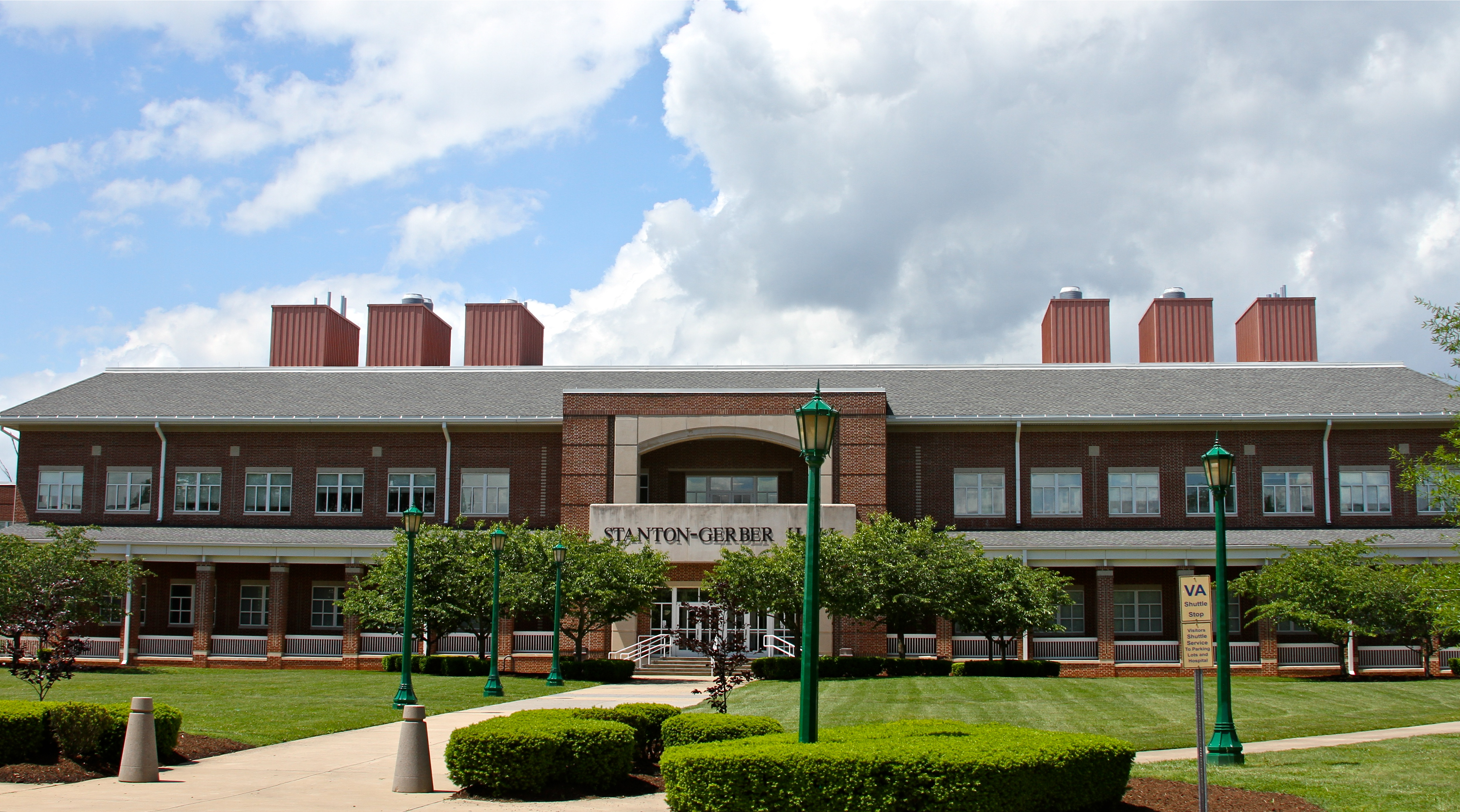 This image is of Quillen's main building, Stanton-Gerber Hall.